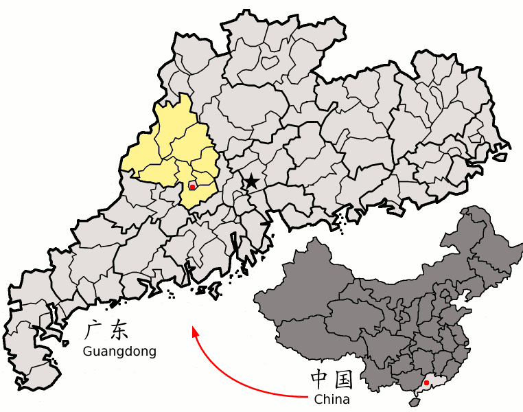 Location of Zhaoqing within Guangdong province of China